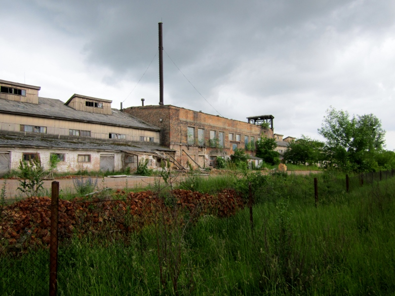 Old Brickyard